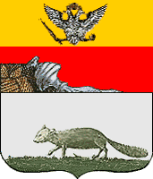 Coat of Arms of Bobrov (Voronezh oblast) 1781